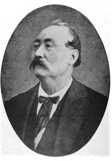 Portrait of the Occitan writer Aquiles Mir